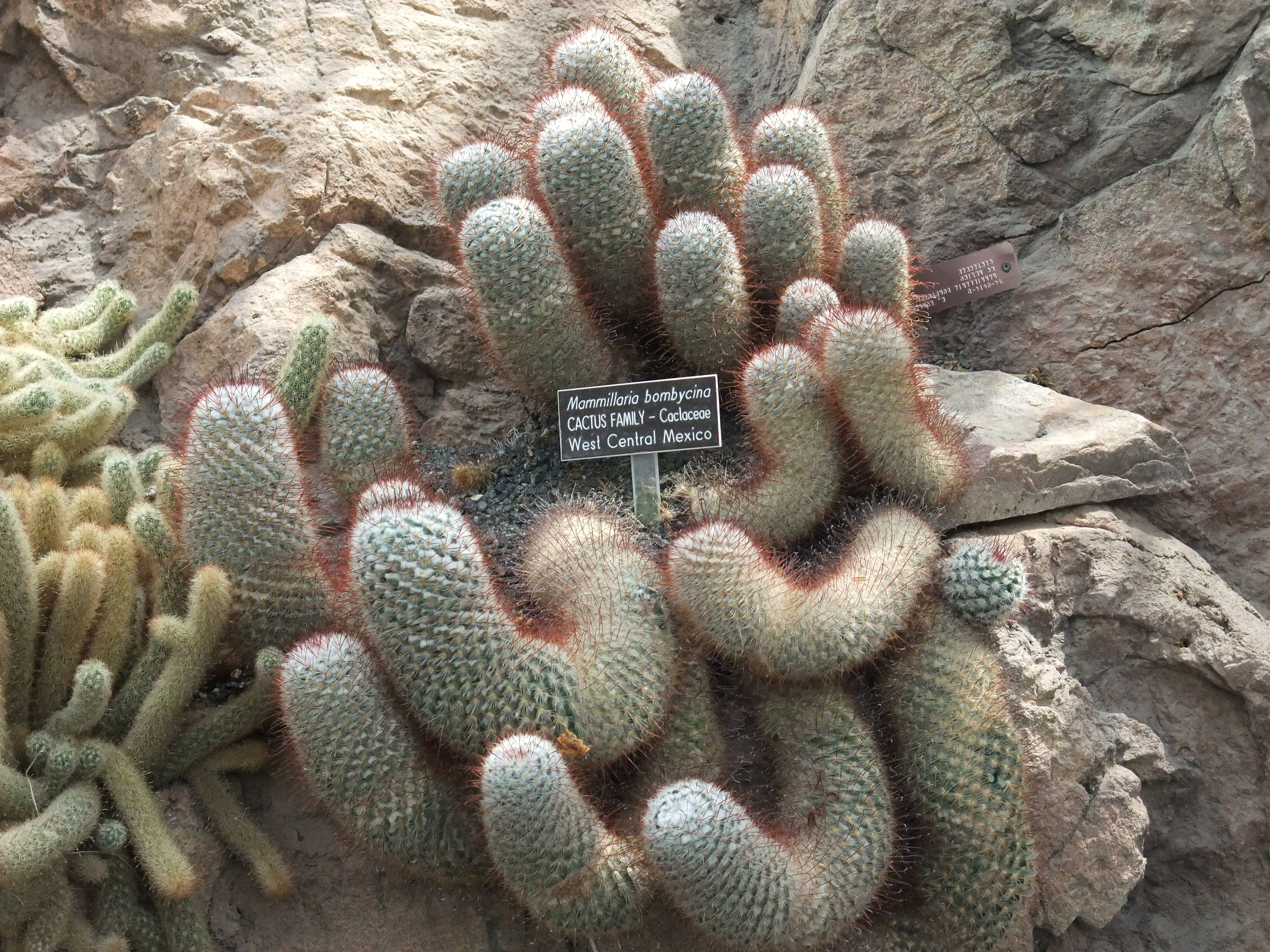 A photograph of Mammillaria bombycina.